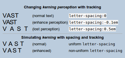 show "Tracking vs Kerning" perception